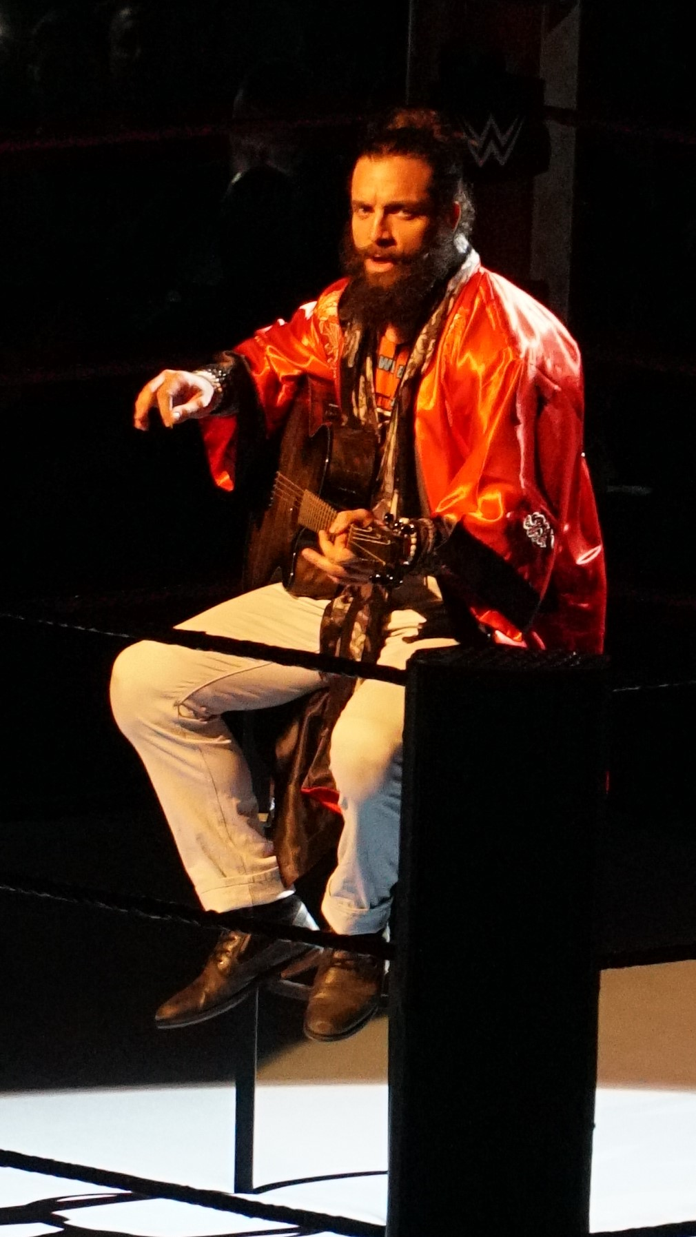 Elias concert, April 2018